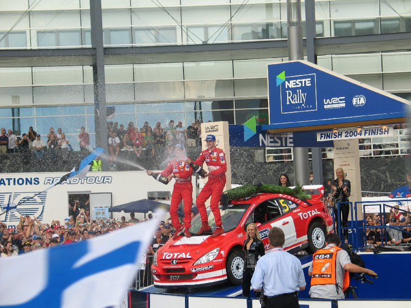 Marcus Grönholm, his co-driver Timo Rautiainen and their Peugeot 307 WRC (1st place) on the podium of the 2004 Rally Finland.